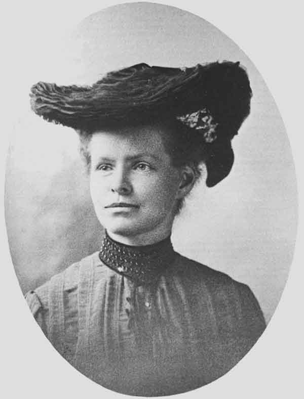 Nettie Maria Stevens (July 7, 1861 - May 4, 1912), early American geneticist